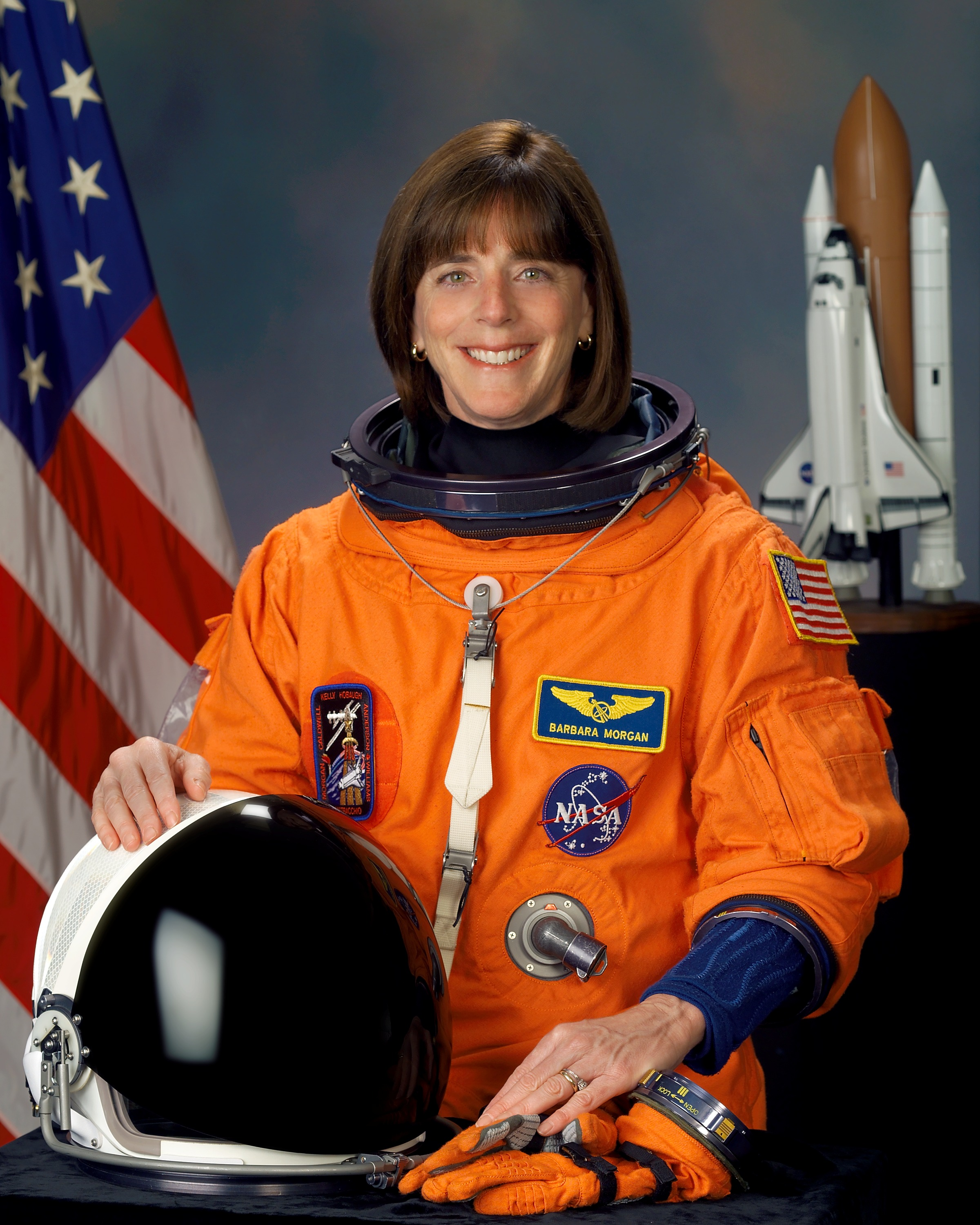 Official portrait image of NASA astronaut Barbara Morgan